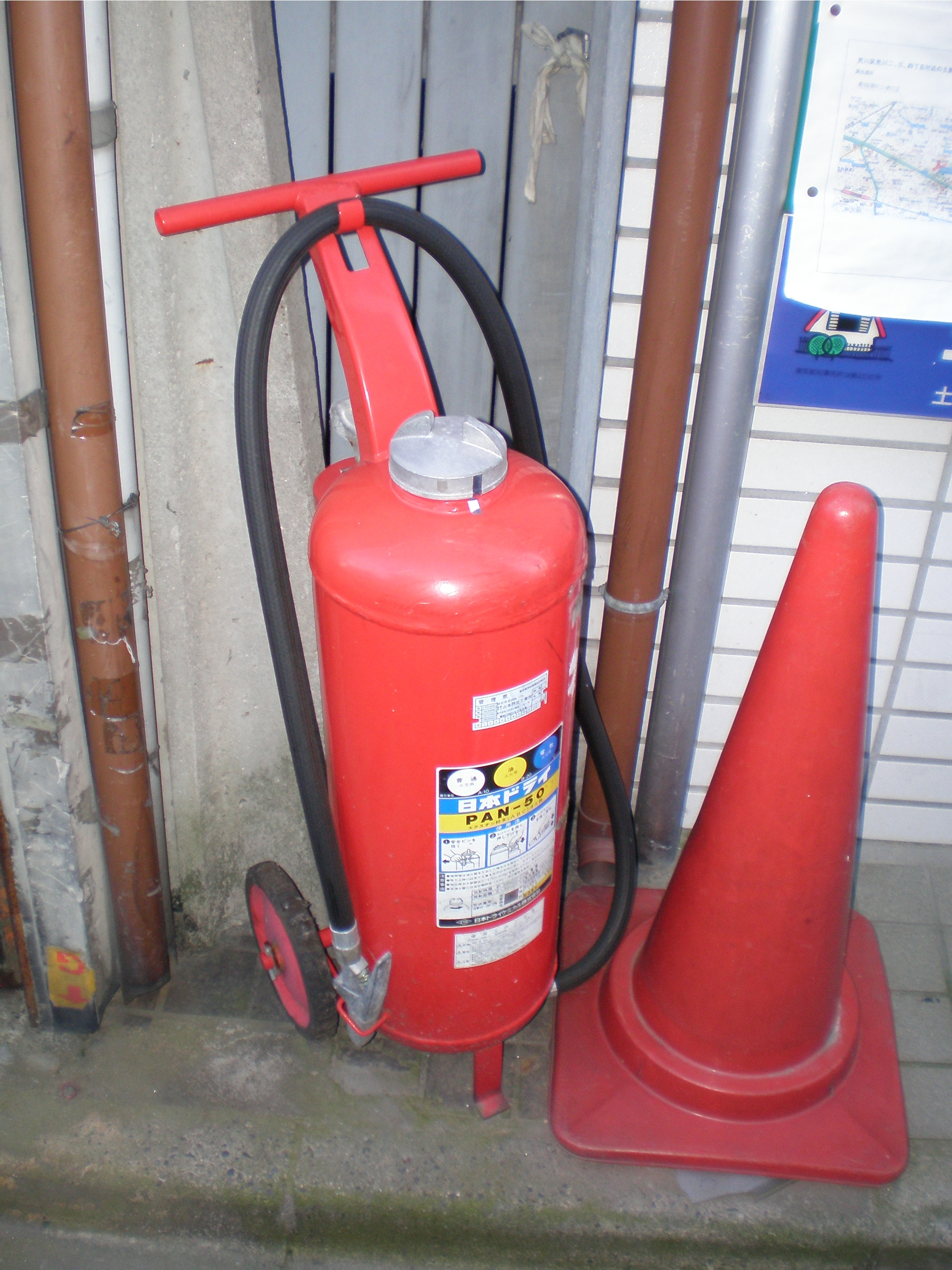 Wheeled Fire Extinguisher